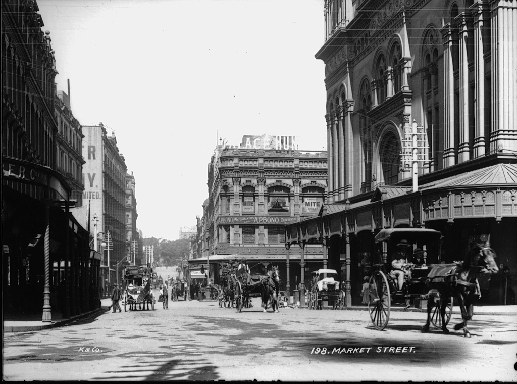 'Sydney City' Pictures from The Powerhouse Museum This files was posted to Flickr by The Powerhouse Museum (See their website for further information). Many thanks to the Powerhouse Museum for helping release this wonderful material. This tag does not indicate the copyright status of the attached work. A normal copyright tag is still required. See Commons:Licensing for more information.